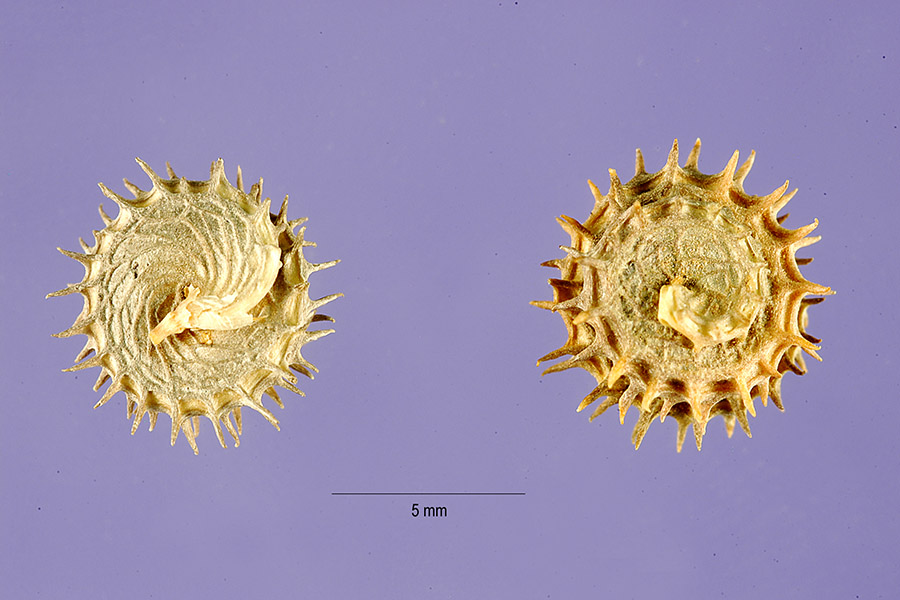 Photograph of Medicago polymorpha seeds (originally identified as Medicago hispida var. apiculata)